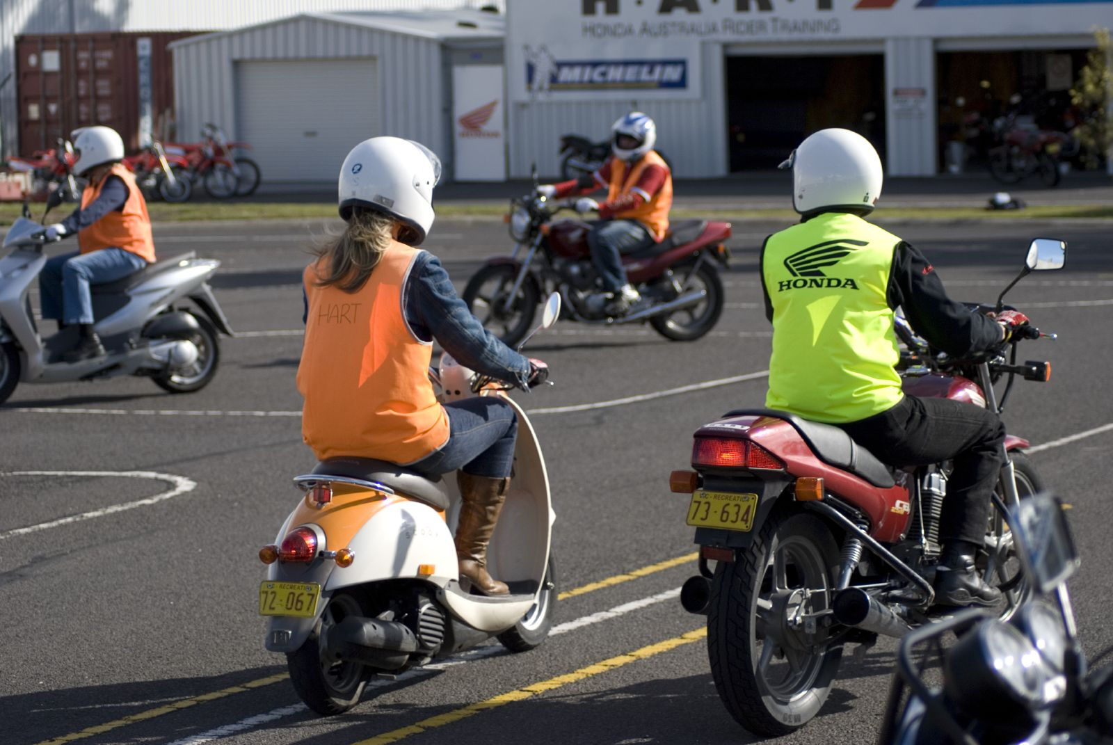 Honda Australia Rider Training (HART). Caroline; narrow lane instruction.